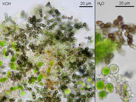 Reichlingia leopoldii Diederich & Scheid., 1996. Details.